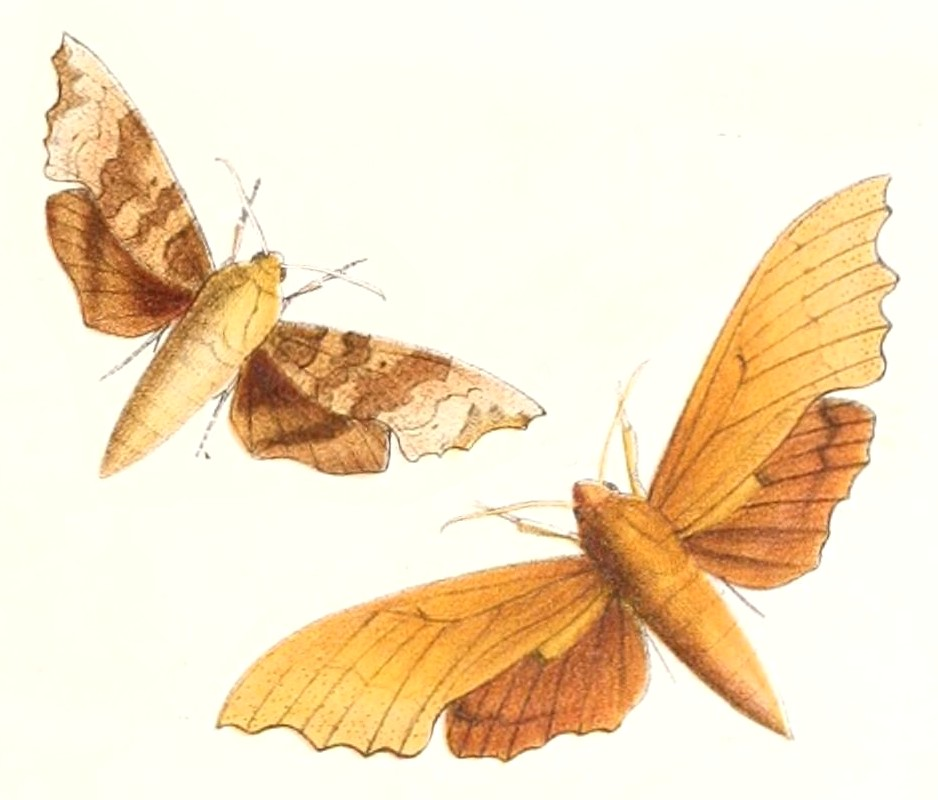 « Cypa olivacea » = Smerinthulus olivacea - male and female